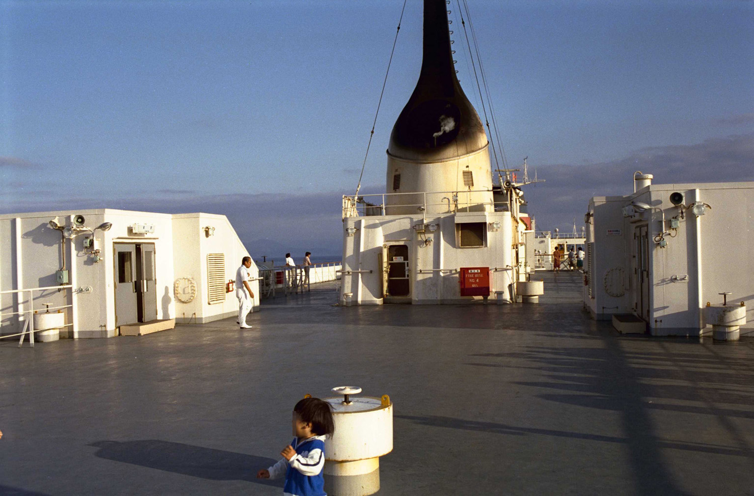 MS HIYAMA MARU2 Promenade Deck From Stern to Bow direction view